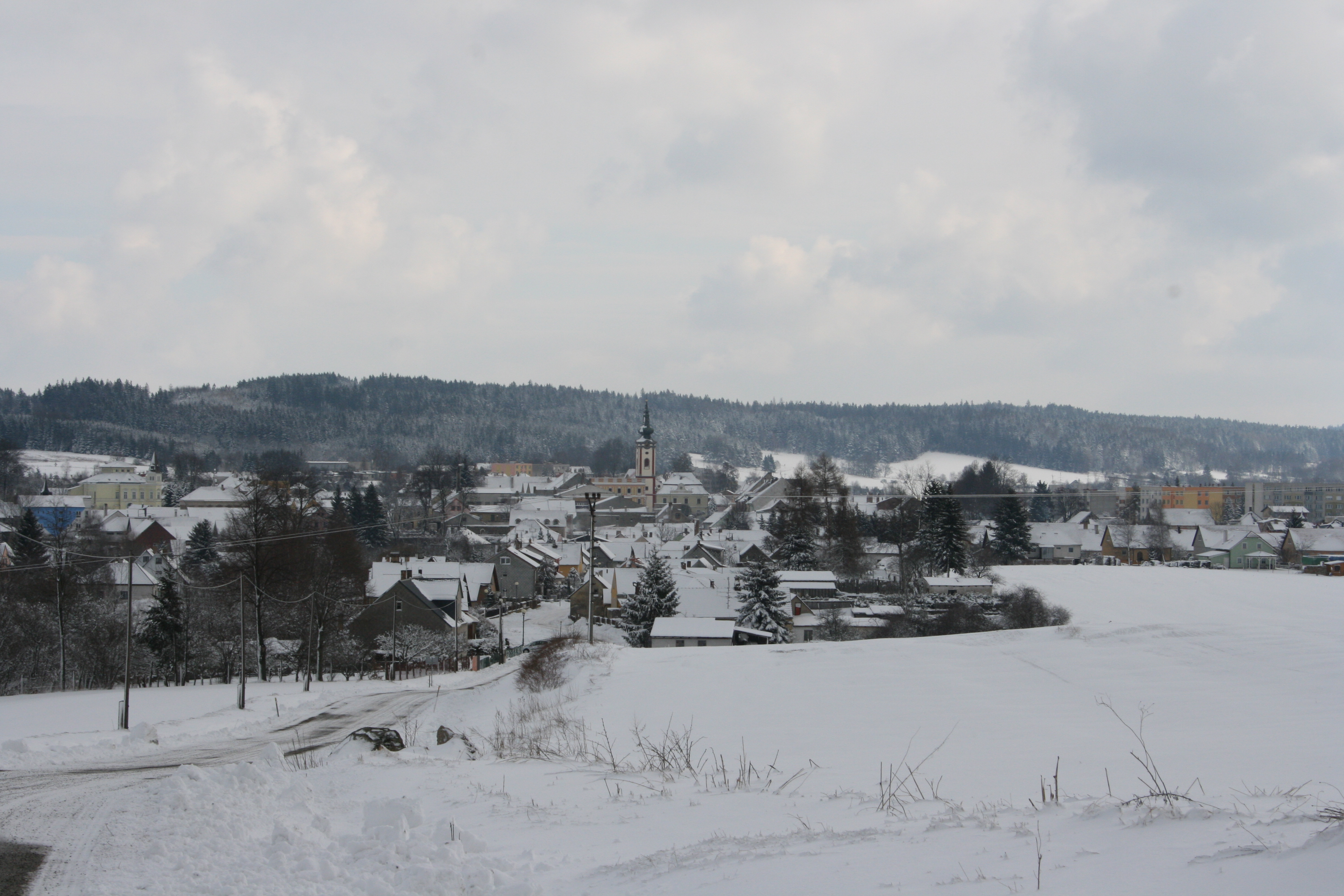 Town Nová Bystřice, Jindřichův Hradec District, Czech Republic.